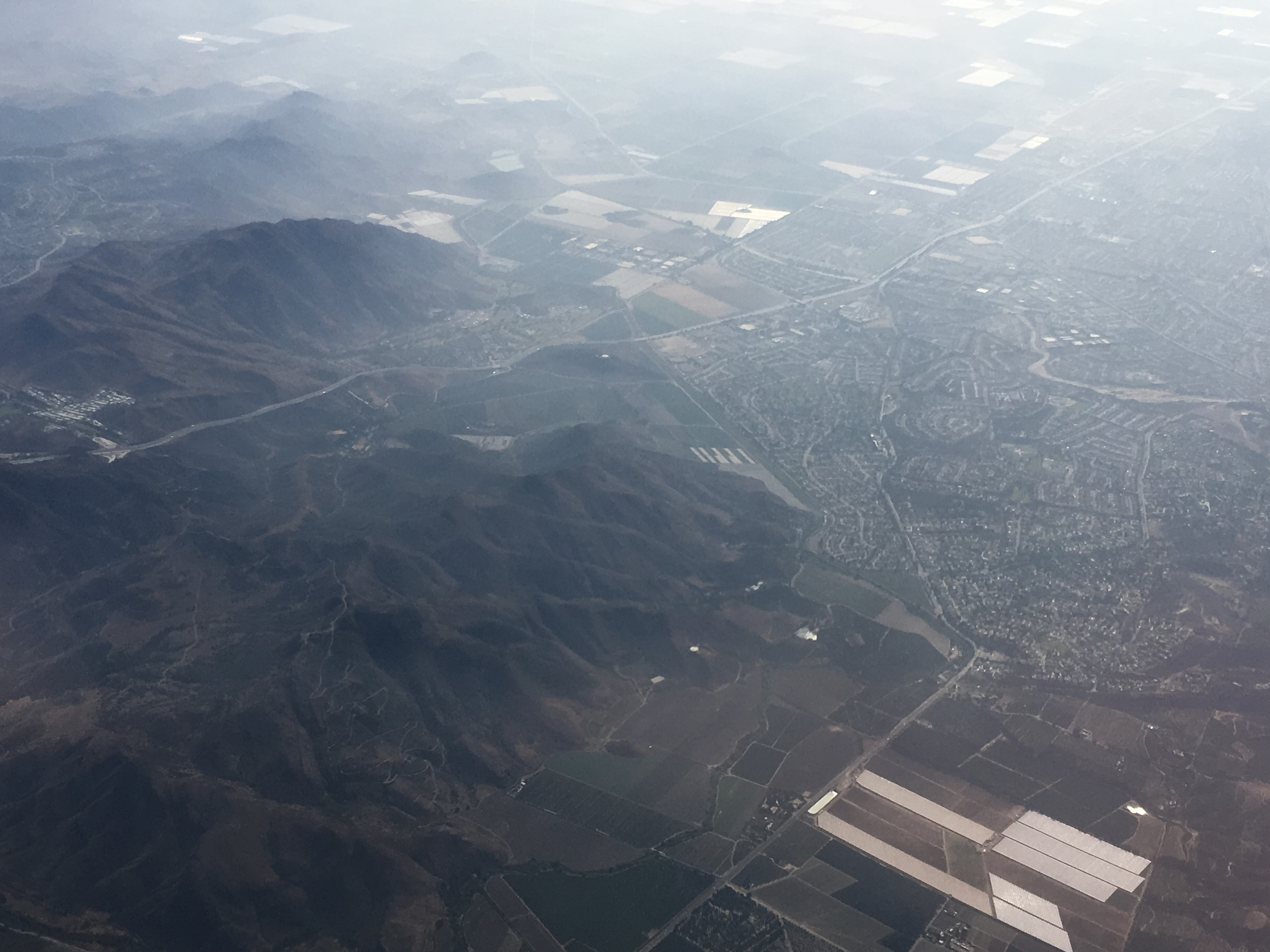 Aerial view of the Conejo Grade, southwards view